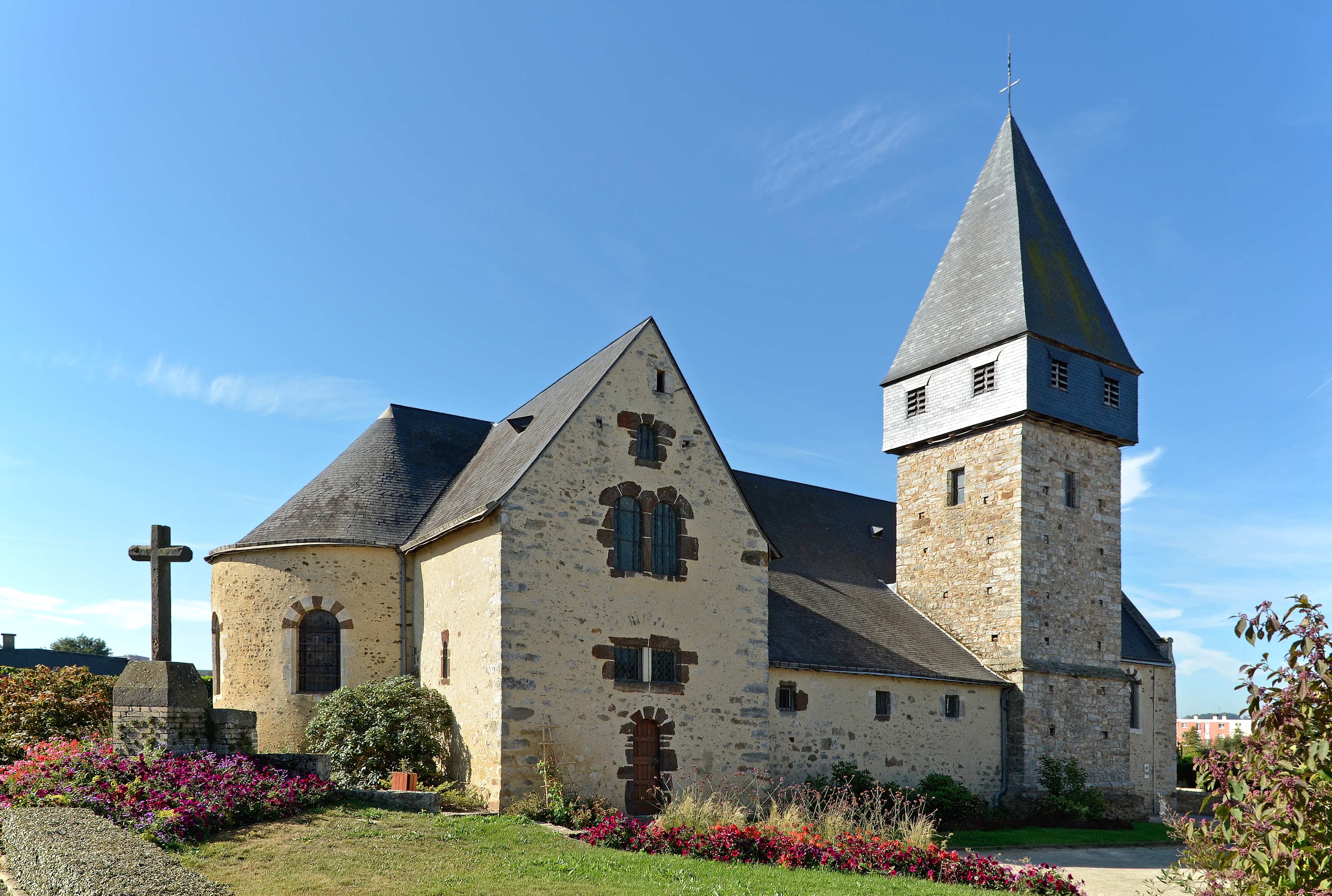 Saint-Nicolas church in Coulaines - Sarthe, France .